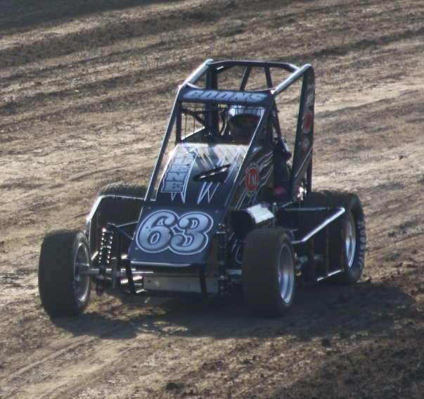 The USAC Midget Car for Kyle Larson at Angell Park Speedway.